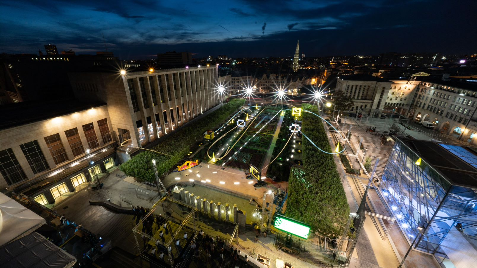 Brussels DCL Venue